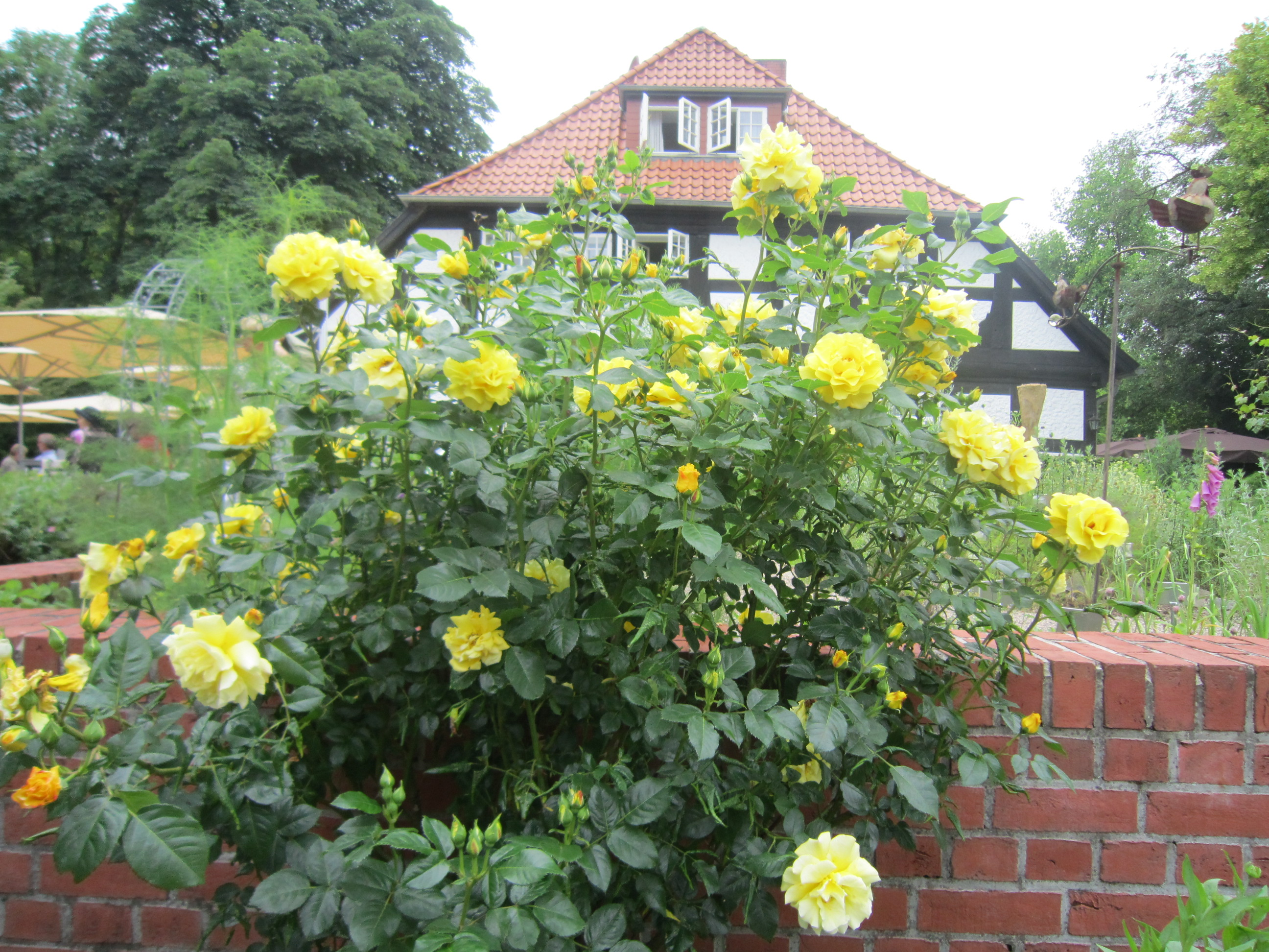 Rose festival at "Forsthaus Heiligenberg" (Bruchhausen-Vilsen in Lower Saxony)